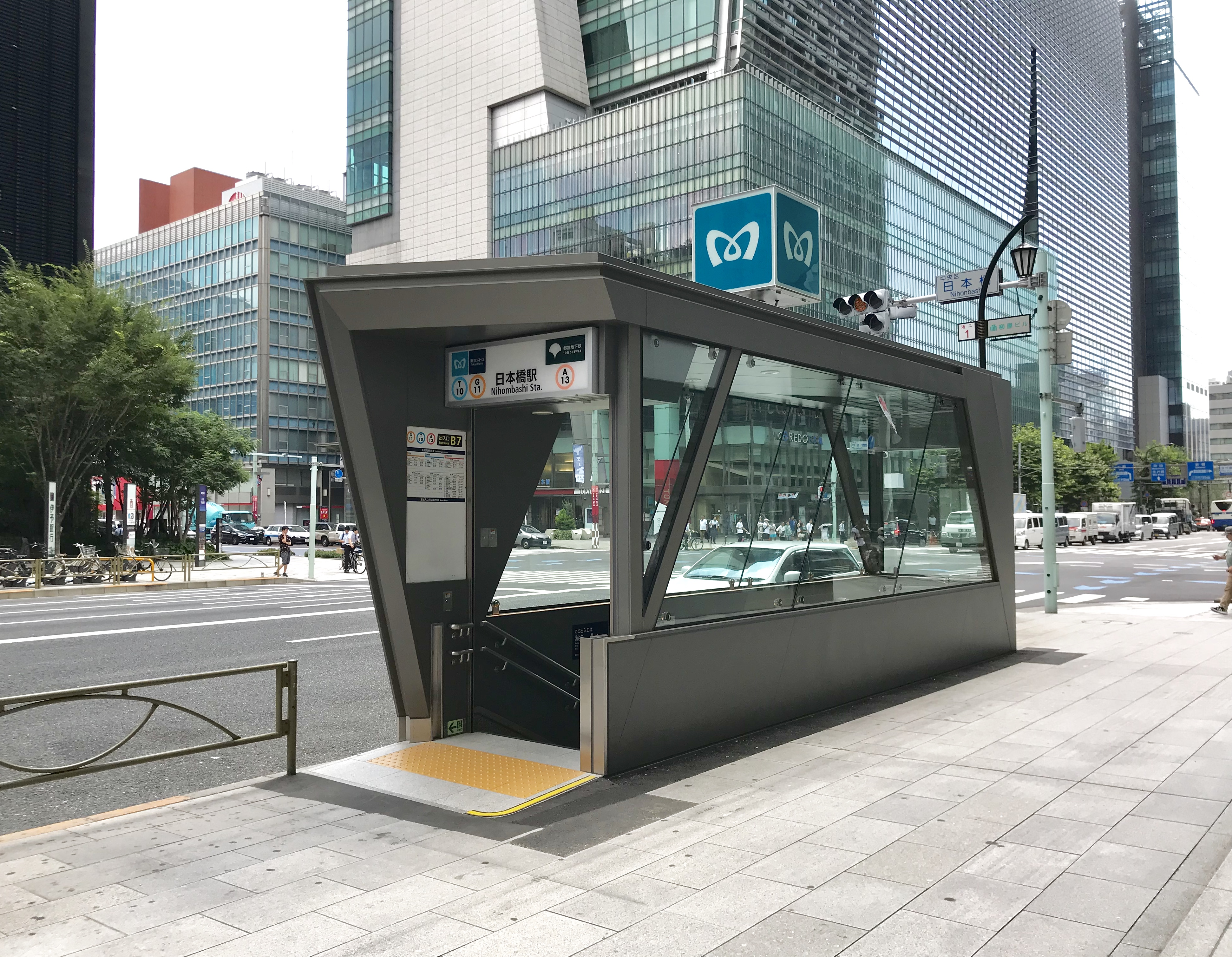 Exit B7 at Nihombashi Station on the Tokyo Metro Ginza and Tozai Lines and the Toei Subway Asakusa Line